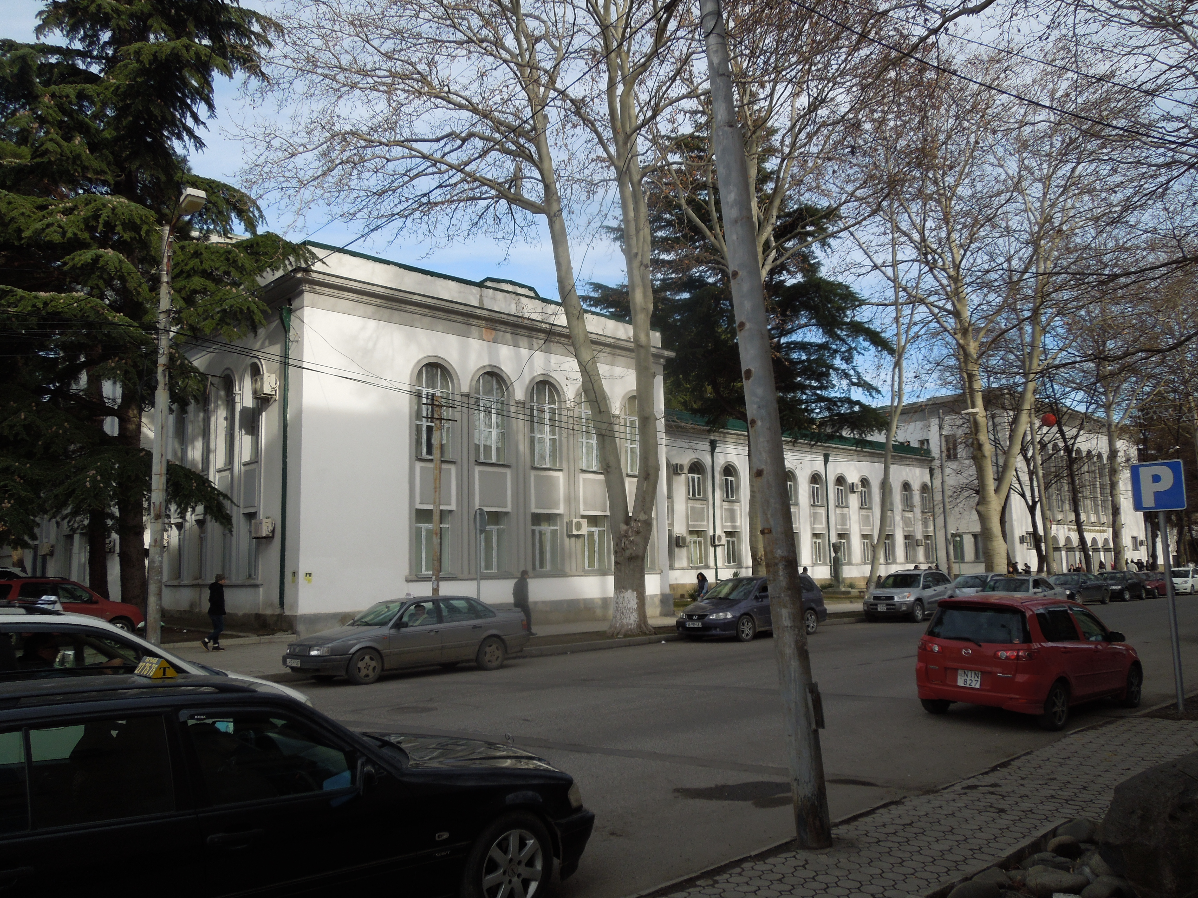 Gori State Teaching University